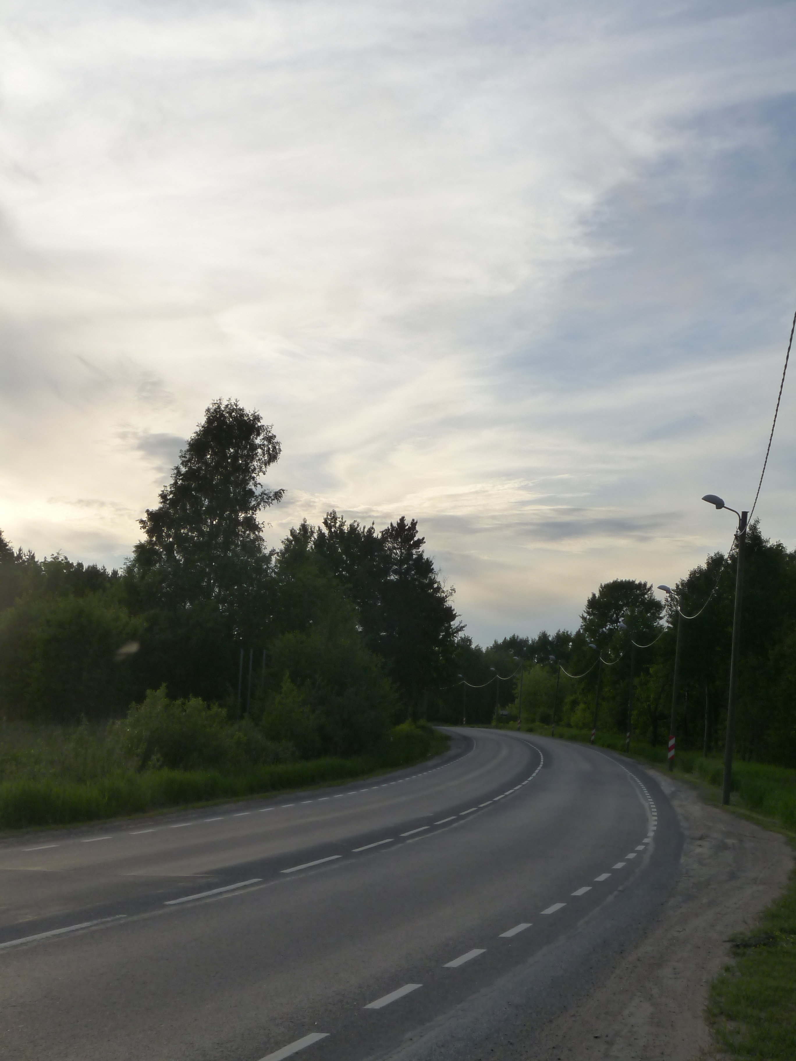 End of Rahu street in Tallinn, Estonia